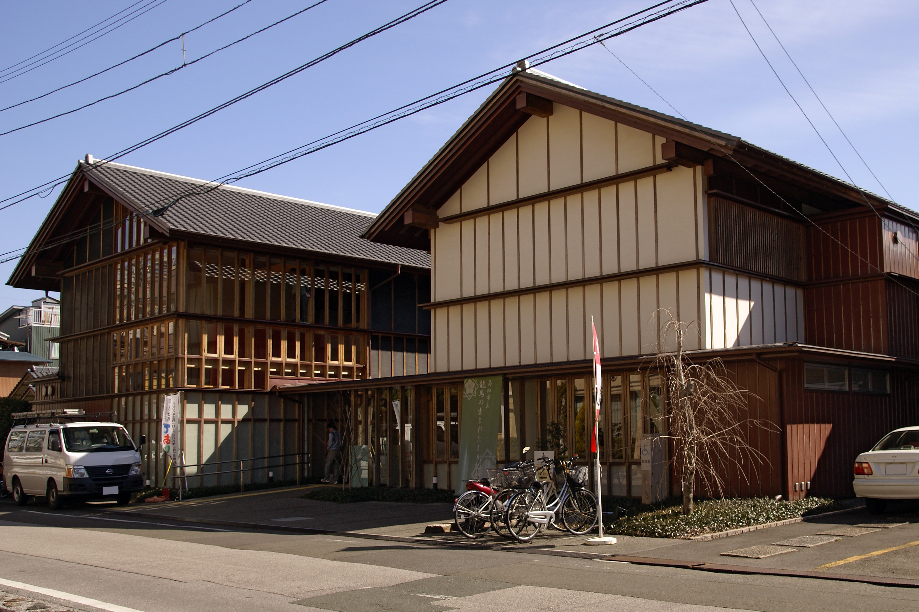 Ryoma's Hometown Museum (Ryoma-no-umareta-machi Memorial Hall) in Kochi, Kochi prefecture, Japan